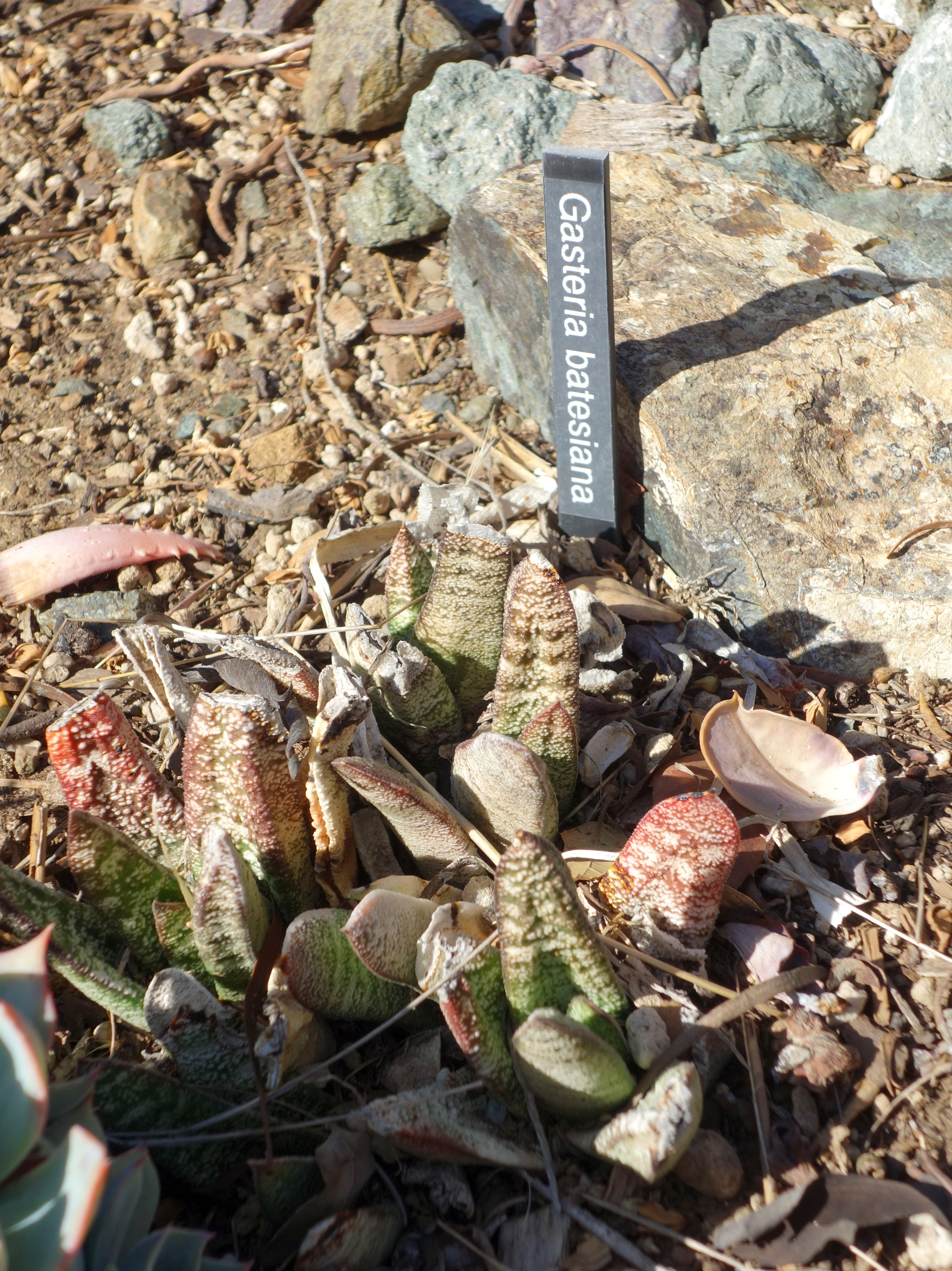 Botanical specimen in Leaning Pine Arboretum, California Polytechnic State University, San Luis Obispo, California, USA.